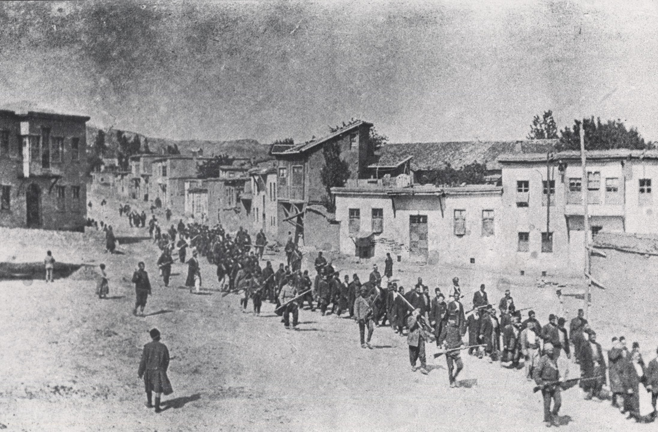 Armenian people are marched to a nearby prison in Mezireh by armed Ottoman soldiers. Kharpert, Ottoman Empire, April 1915.